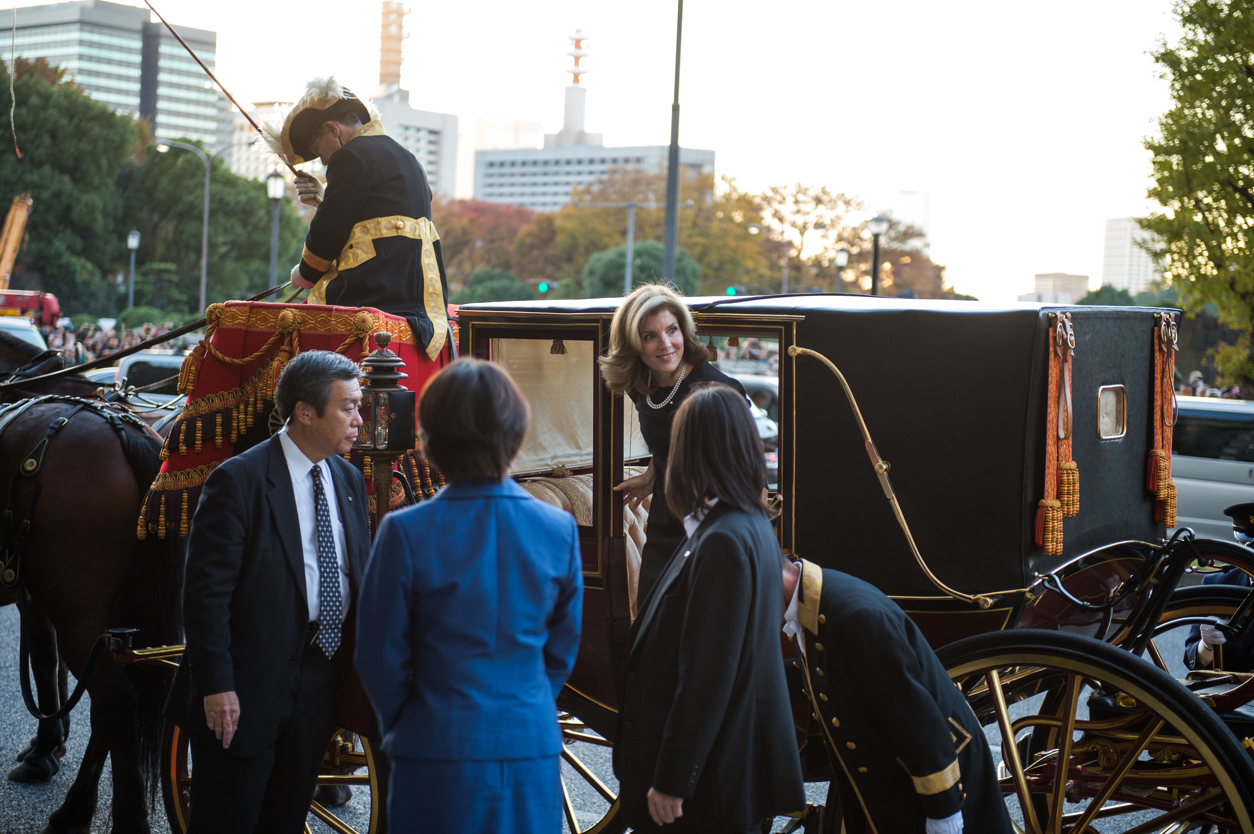 TOKYO, Japan (November 19, 2013) U.S. Ambassador Caroline Kennedy returns from the Imperial Palace, where she presented her credentials to His Imperial Majesty Emperor Akihito. [State Department photo by William Ng/Public Domain]